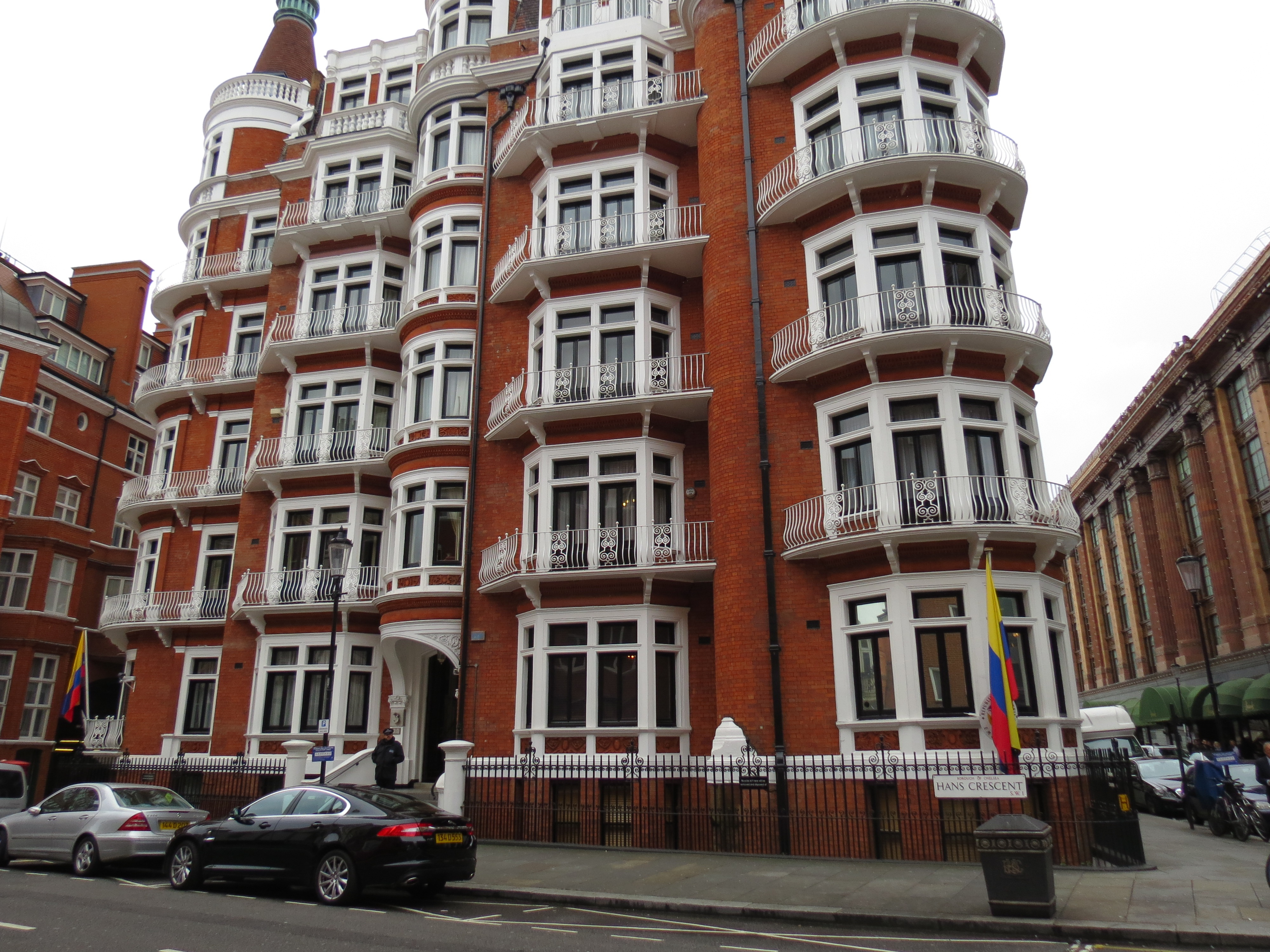 Eucadorian Embassy, London where Julian Assange has asylum